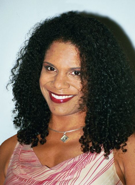 From Washington D.C. 1998